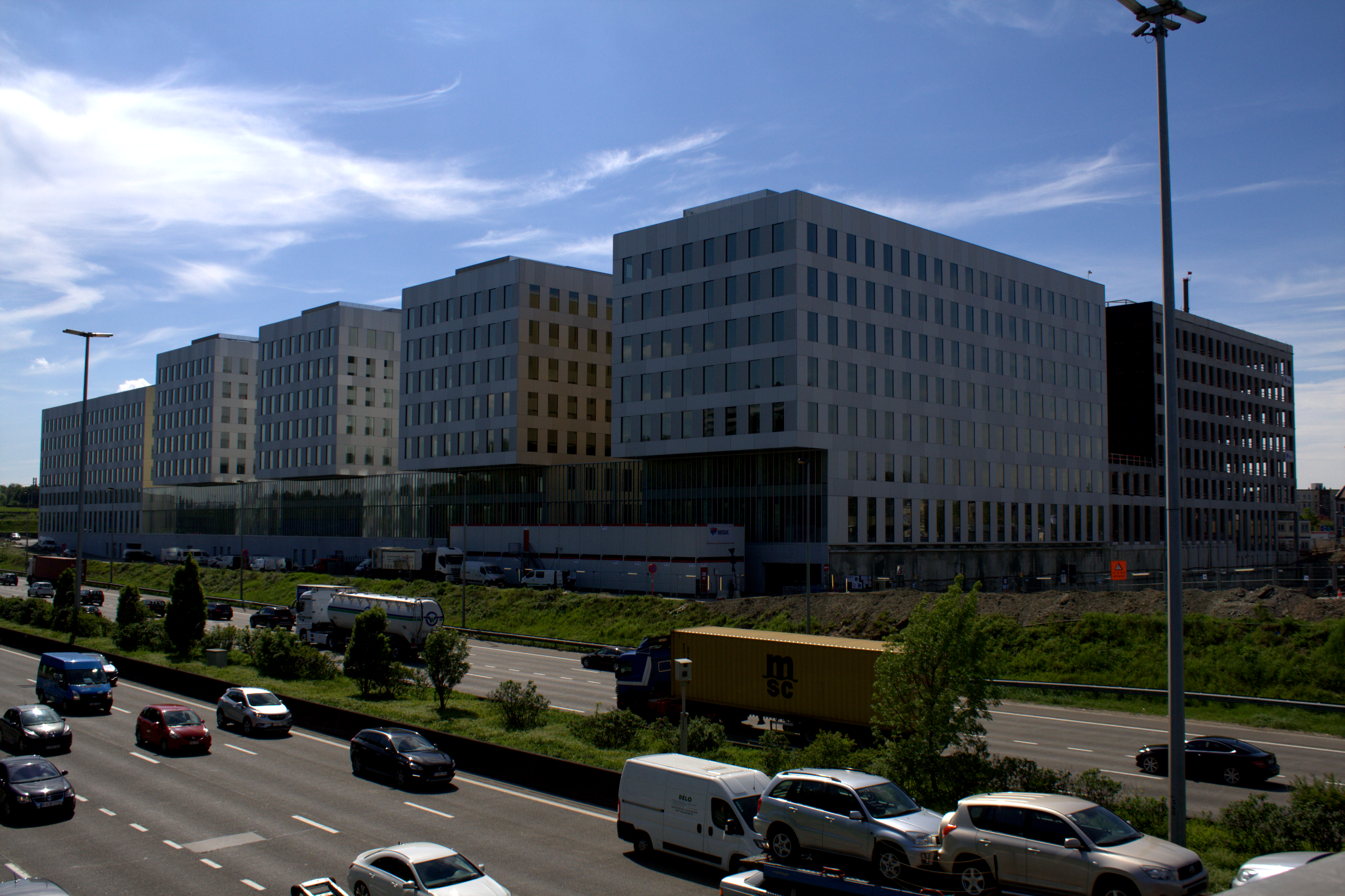 The Office complex Post-X, near the trainstation of Antwerpen-Berchem, under construction, May 2nd 2018.